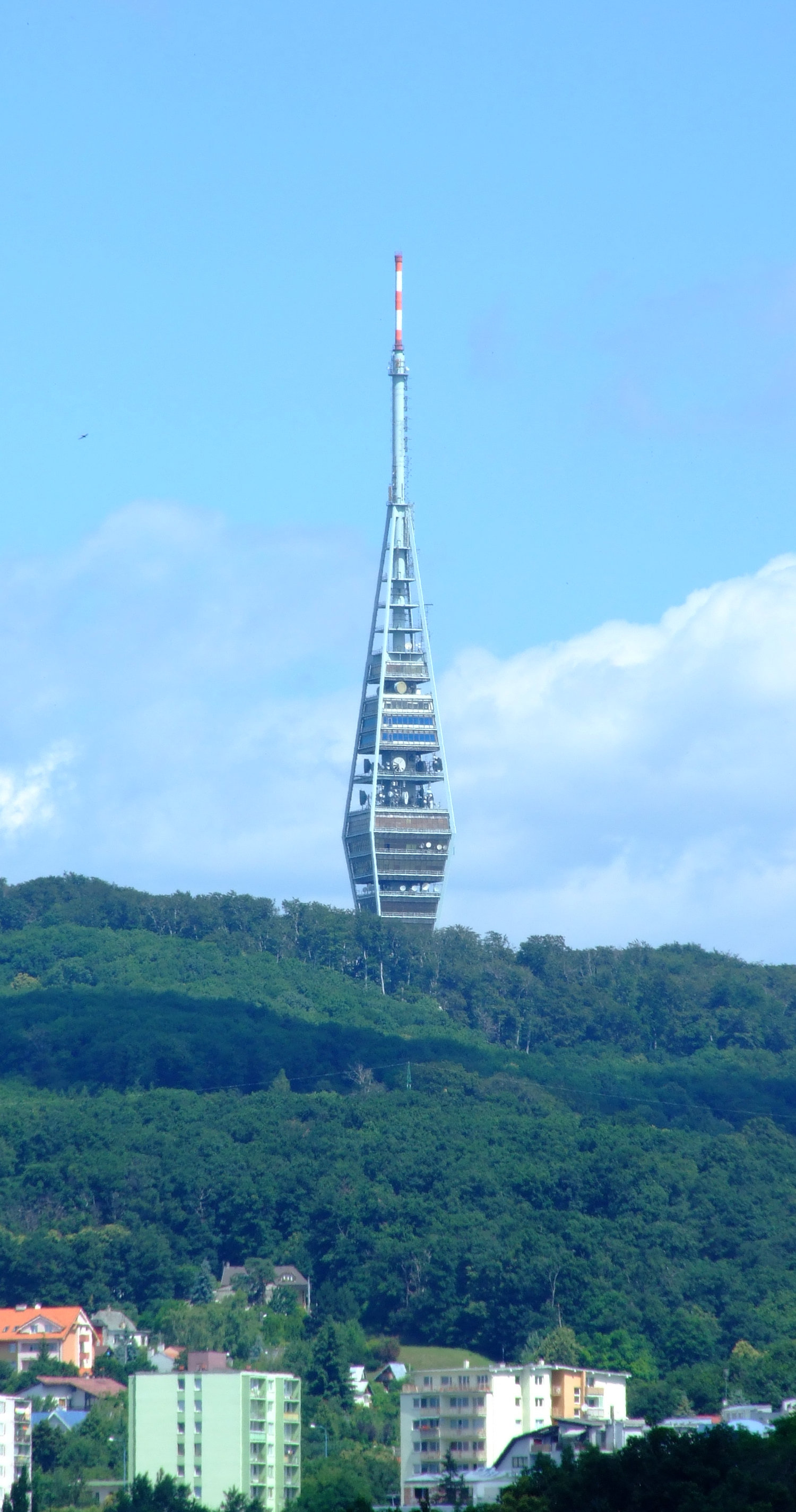 Kamzík tower in Bratislava, seen from Slavín memorial